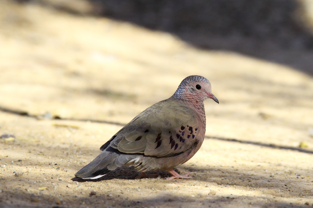 A Common Ground Dove near Salton Sea, California, USA.